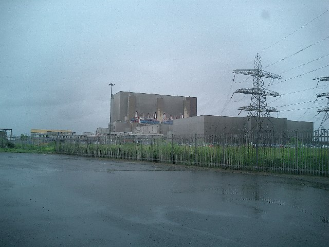 Hartlepool Power Station